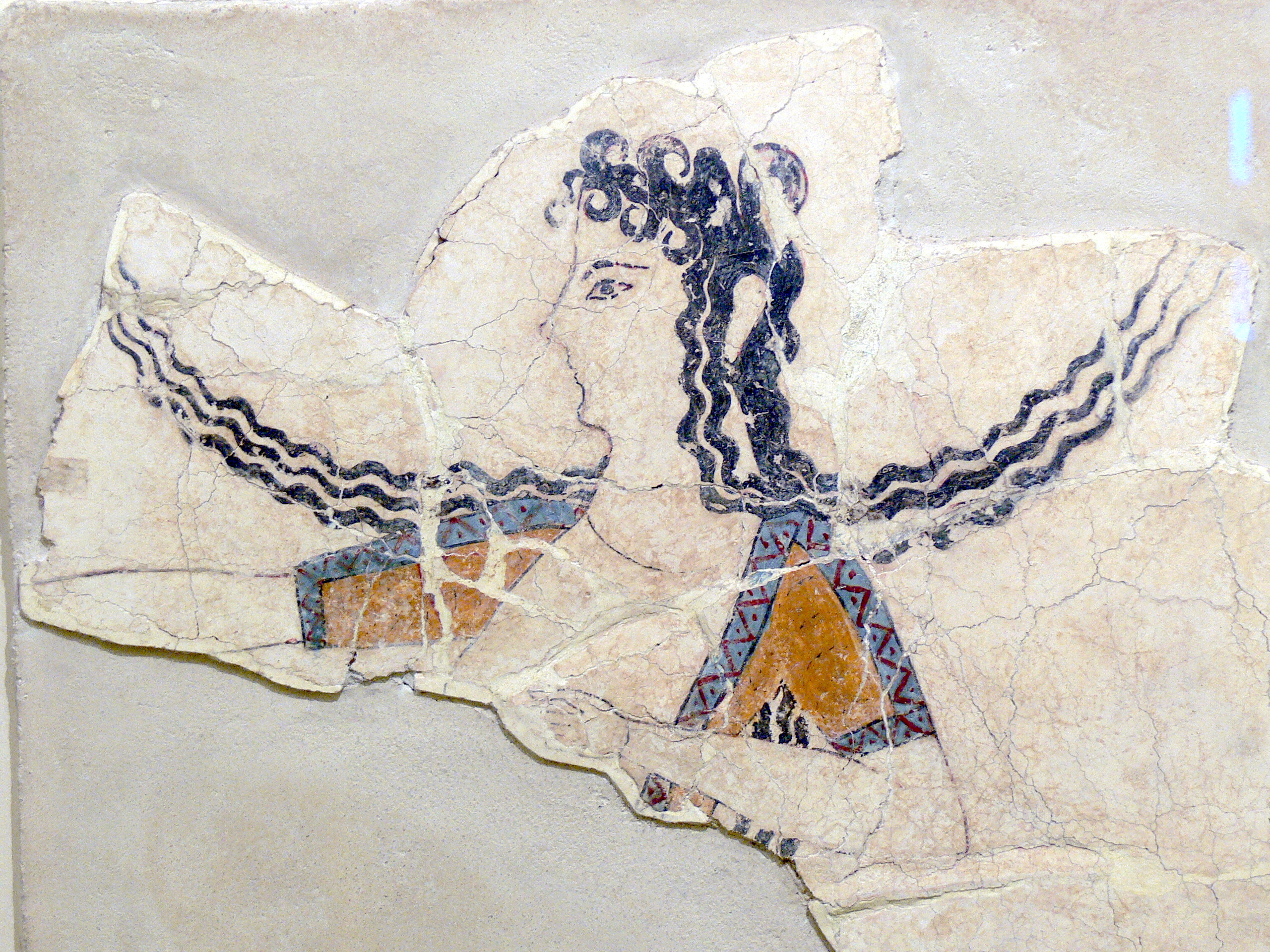 Archeological Museum of Herakleion. Fresco fragment of a dancing woman ( Knossos, 1600-1450 B.C. )